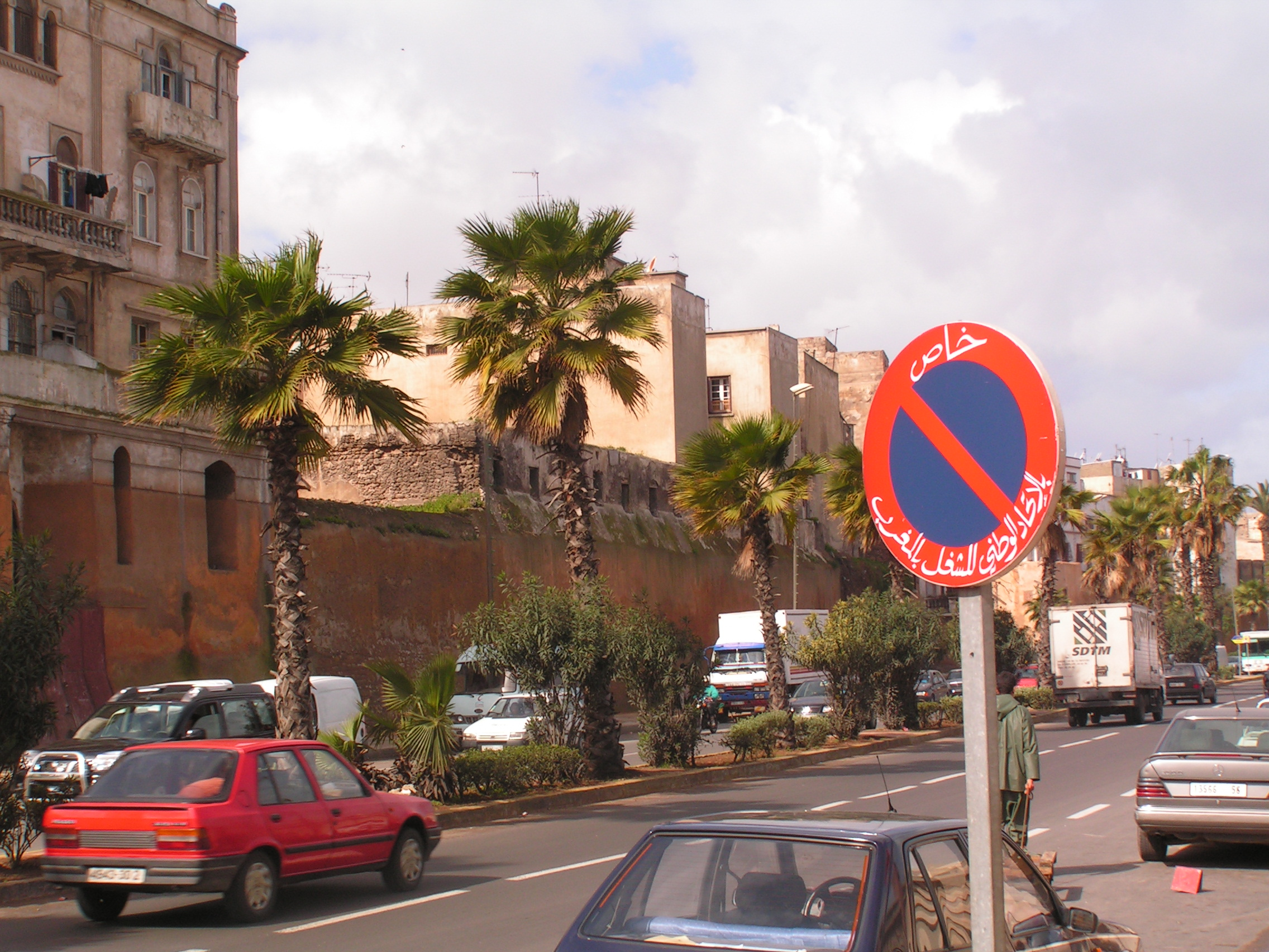 The walls of Old Medina in Casablanca, picture taken in March 2005